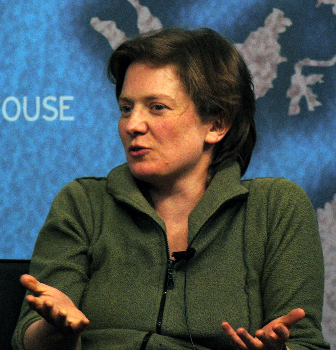 The Political Impact of Documentaries, 12 April 2013 cht.hm/12RLezn